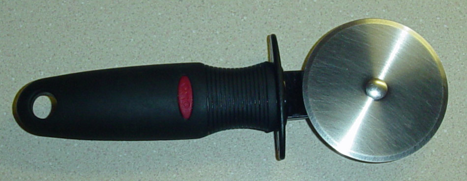 Pizza cutter